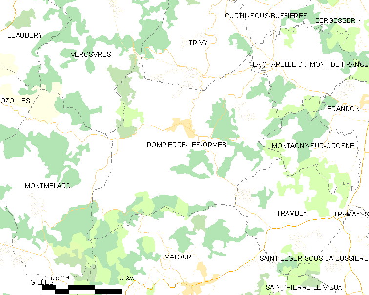 Map of French municipality